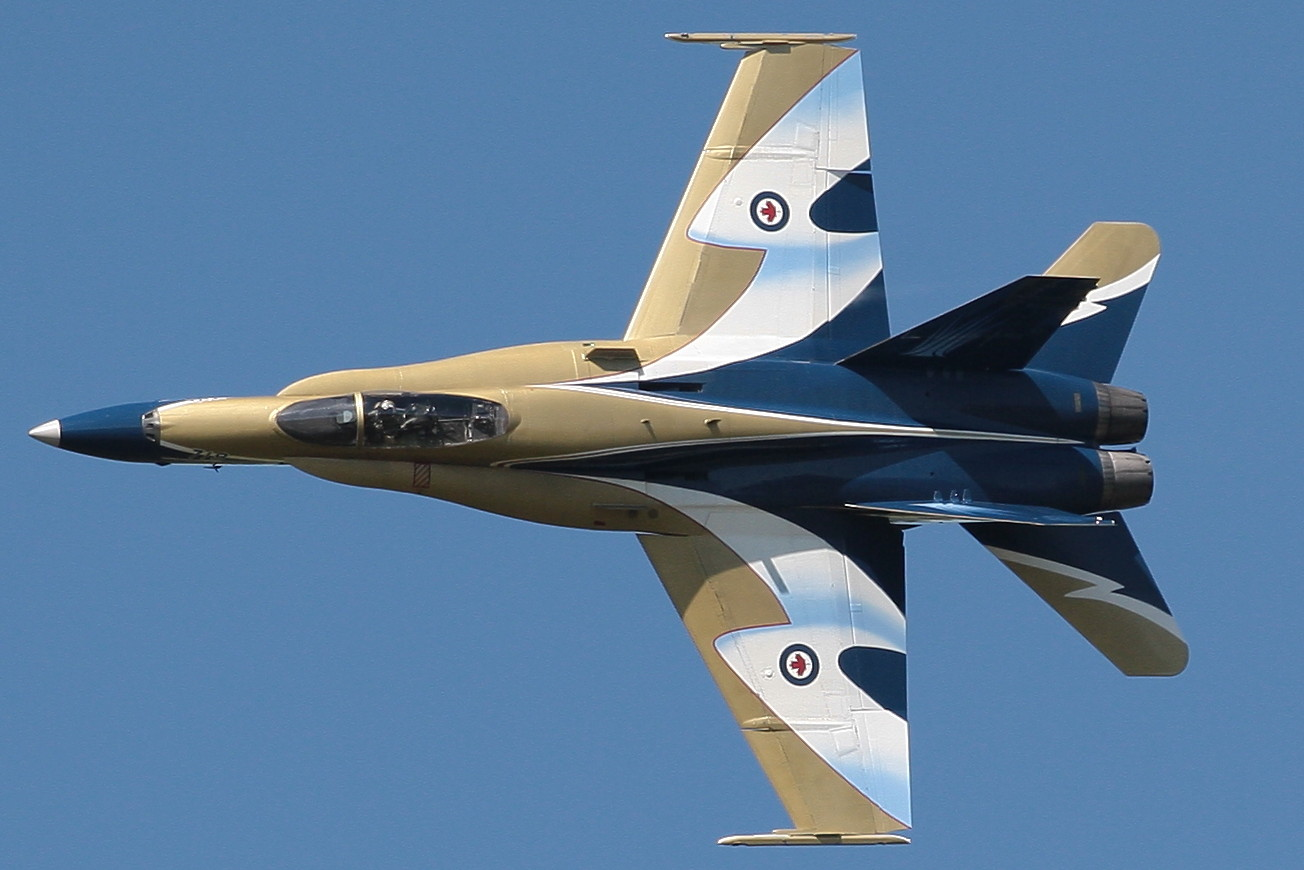 CF-18 Hornet painted for the Canadian Centennial of Flight makes a photo pass in Gatineau, QC